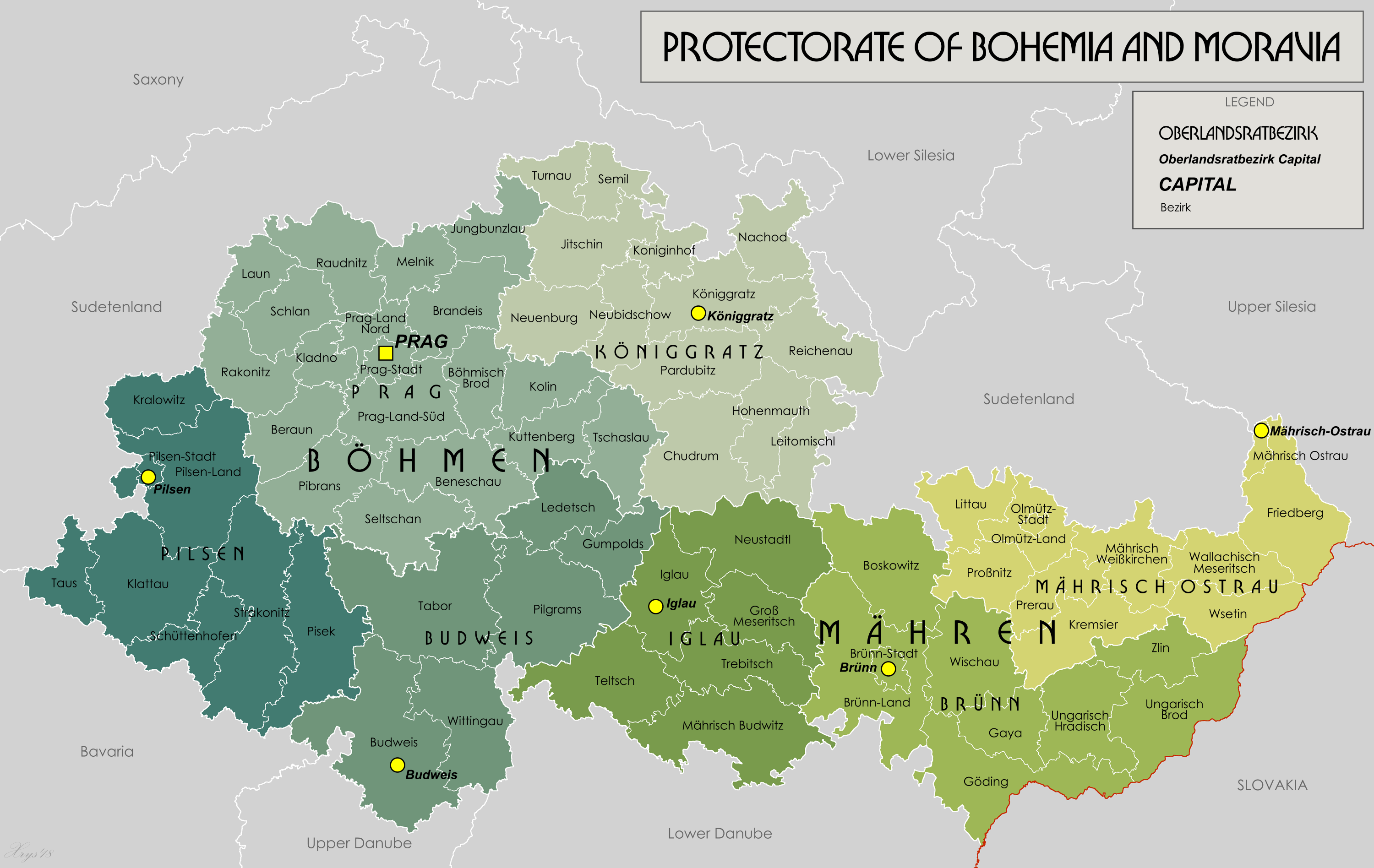 English version of File:Protektorat_Bohmen-Mahren.png